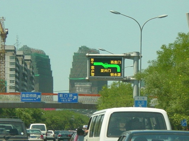 "Smart" electronic route display in use near Jishuitan, NW 2nd Ring Road, Beijing. Note from DF08: As with all things, YMMV (your mileage may vary). From personal experience, the display is fairly accurate for the portion of the road that comes immediately after it. When traffic piles up, and keeps on piling up, the update is pretty quick and reflects the situation well. However, for longer-distance forecasts, it seems to make an unfortunate habit of always providing inaccurate or false data. Obviously, this technology is at its infancy, so one has to allow for it to develop. Despite not a 100% accuracy rate, a very useful addition to the ring road nevertheless.